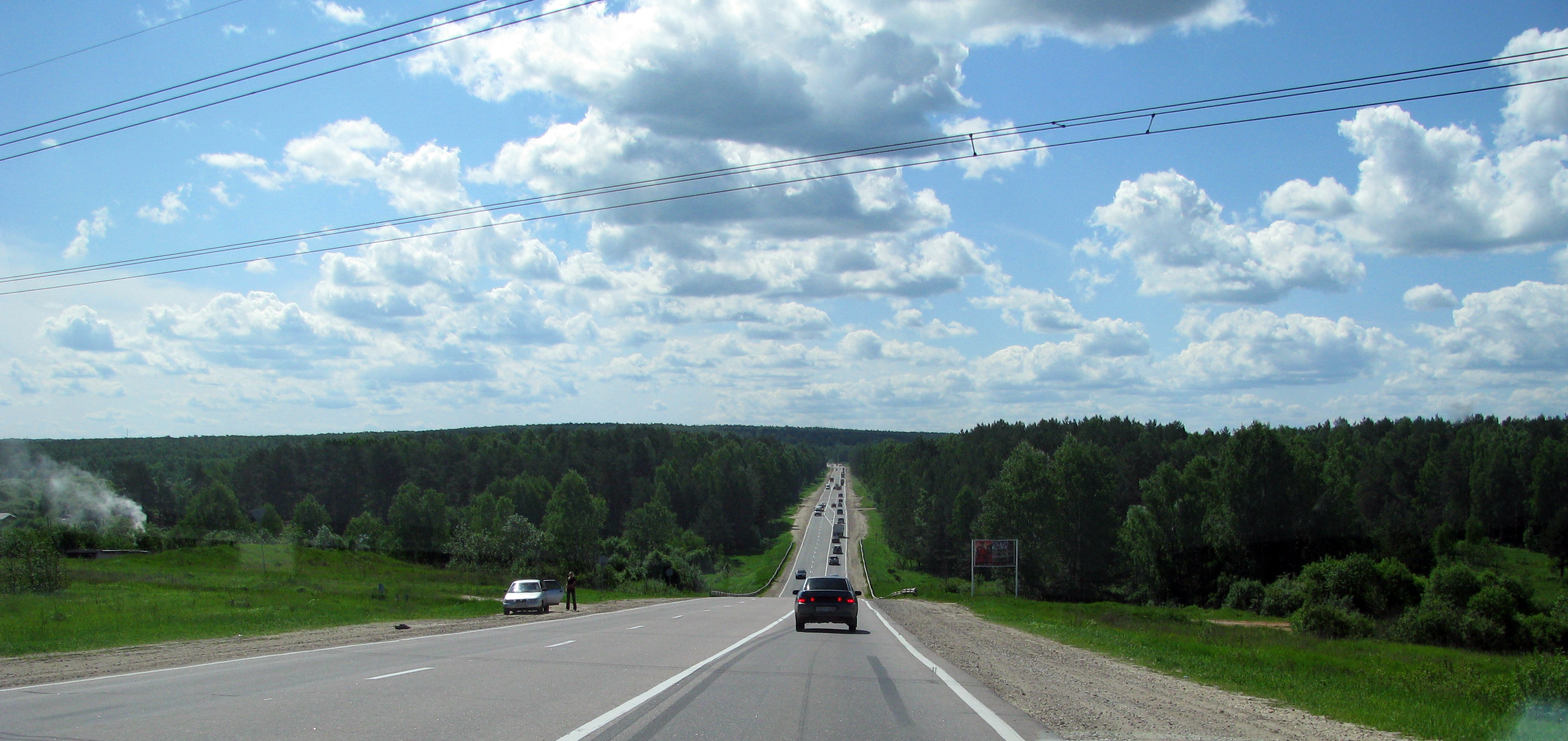 Route R158 not far from the village of Ozerki in Dalnekonstantinovsky District of Nizhny Novgorod Oblast.